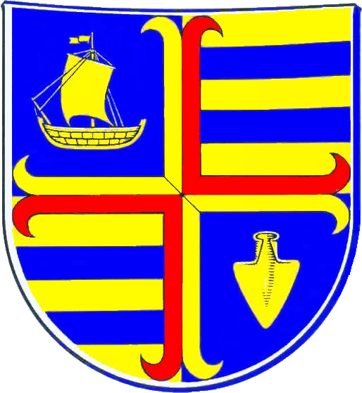 Coat of arms of Niebüll Blasonierung Von Gold und Blau geviert, überdeckt mit einem durchgehenden, von Gold und Rot ebenfalls gevierten Ankerkreuz. 1 ein goldenes, einmastiges Schiff mit Segel, 2 und 3 je zwei blaue Balken, 4 ein goldenes Pflugeisen.